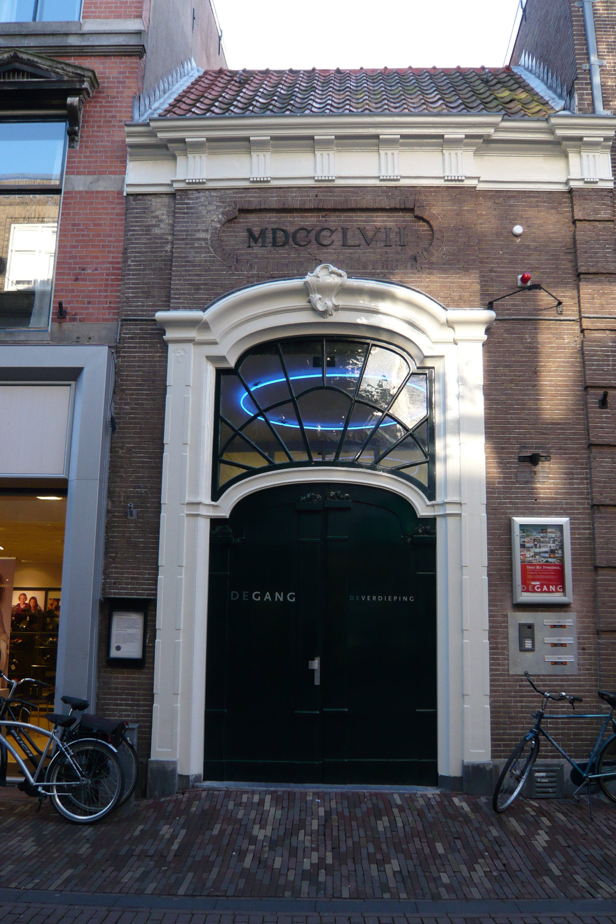 Doopsgezinde kerk entrance, Grote Houtstraat 43, Haarlem